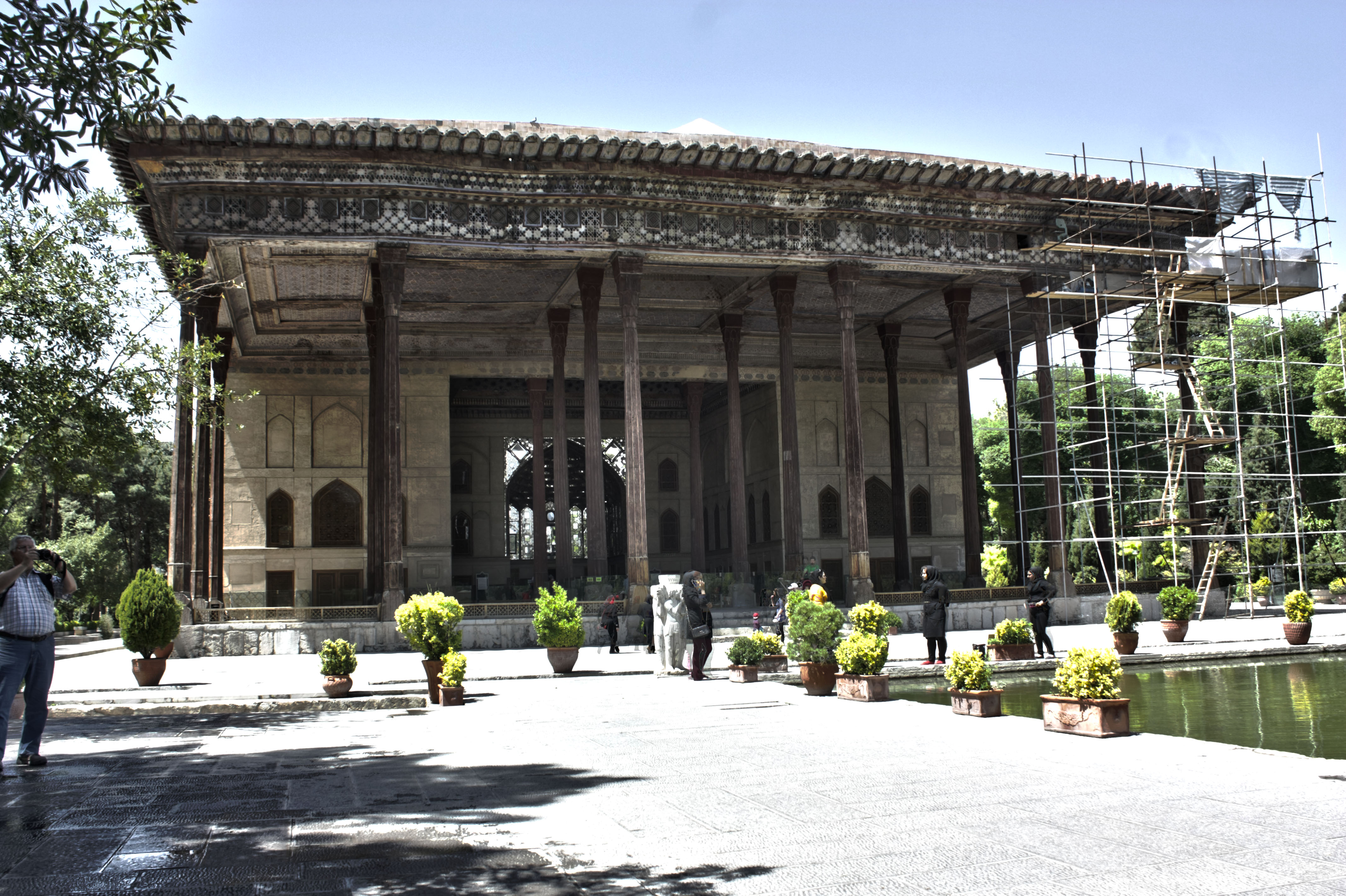 Chehel Sotoun